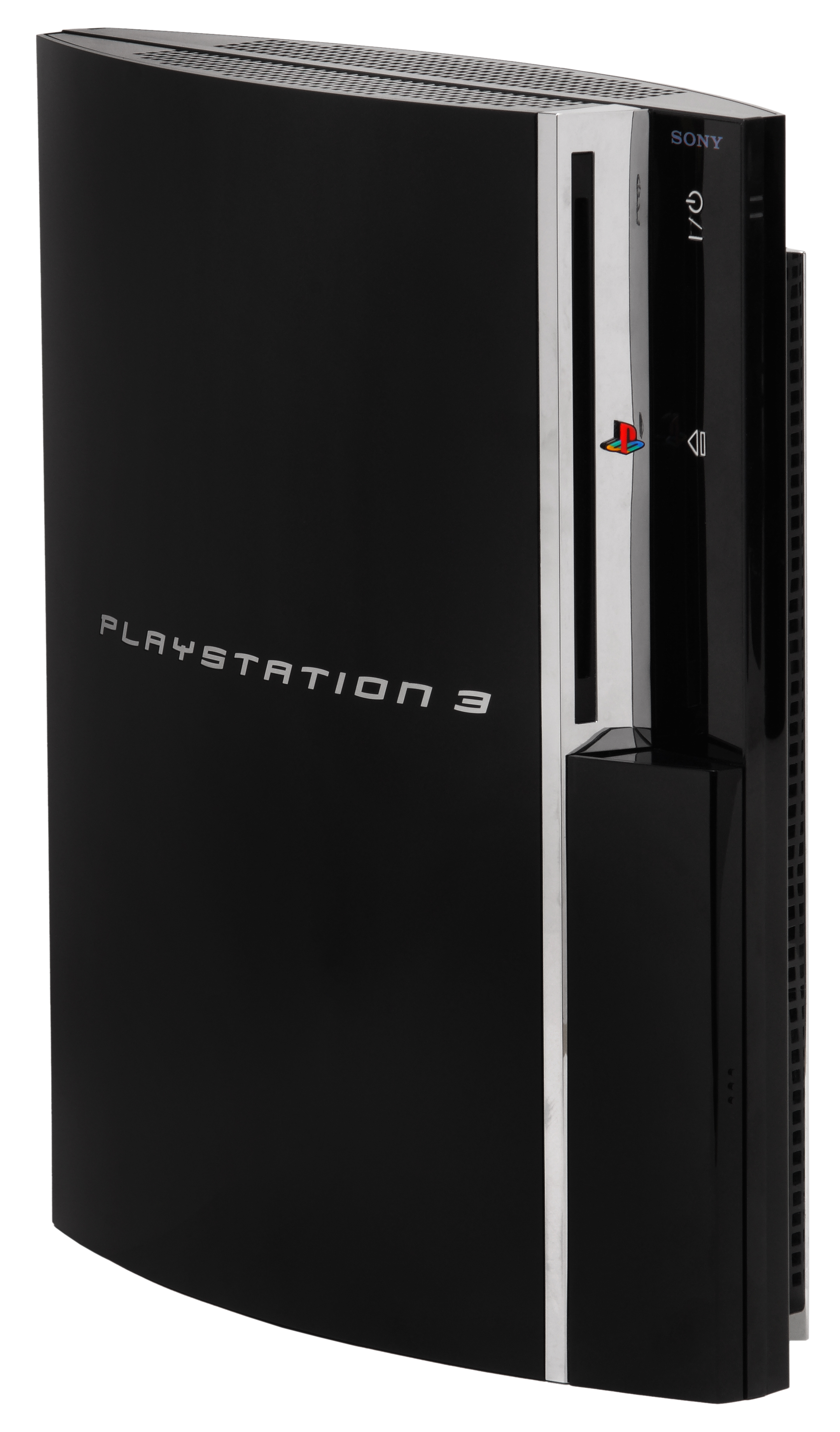 The Sony PlayStation 3 console. This is the original "Fat" version with 60GB hard drive, PS2 backwards compatibility and memory card reader. This is the JPG version.